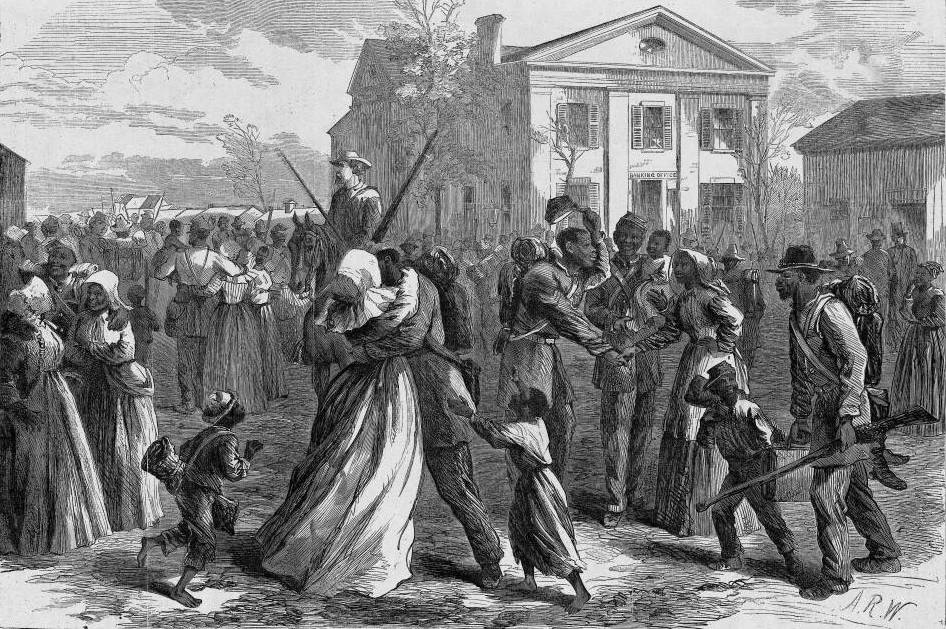 Mustered Out, Mustered Out Colored Volunteers at Little Rock, Arkansas Harper's Weekly, May 19, 1866.